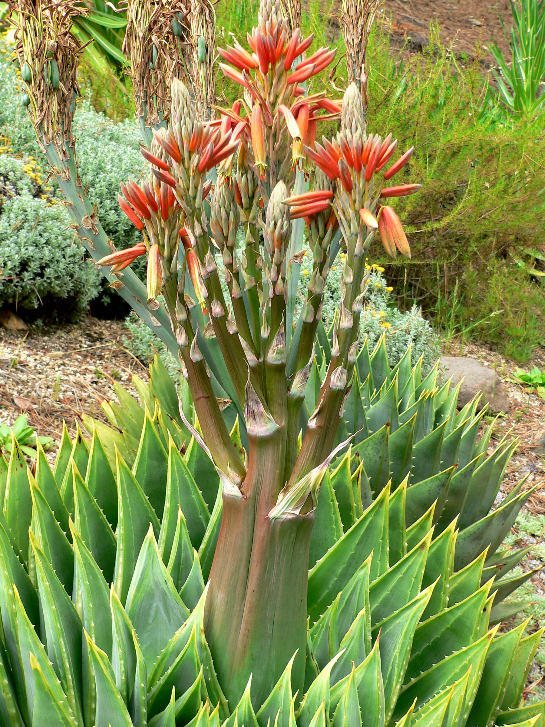 Photo of Aloe polyphylla at the University of California Botanical Garden